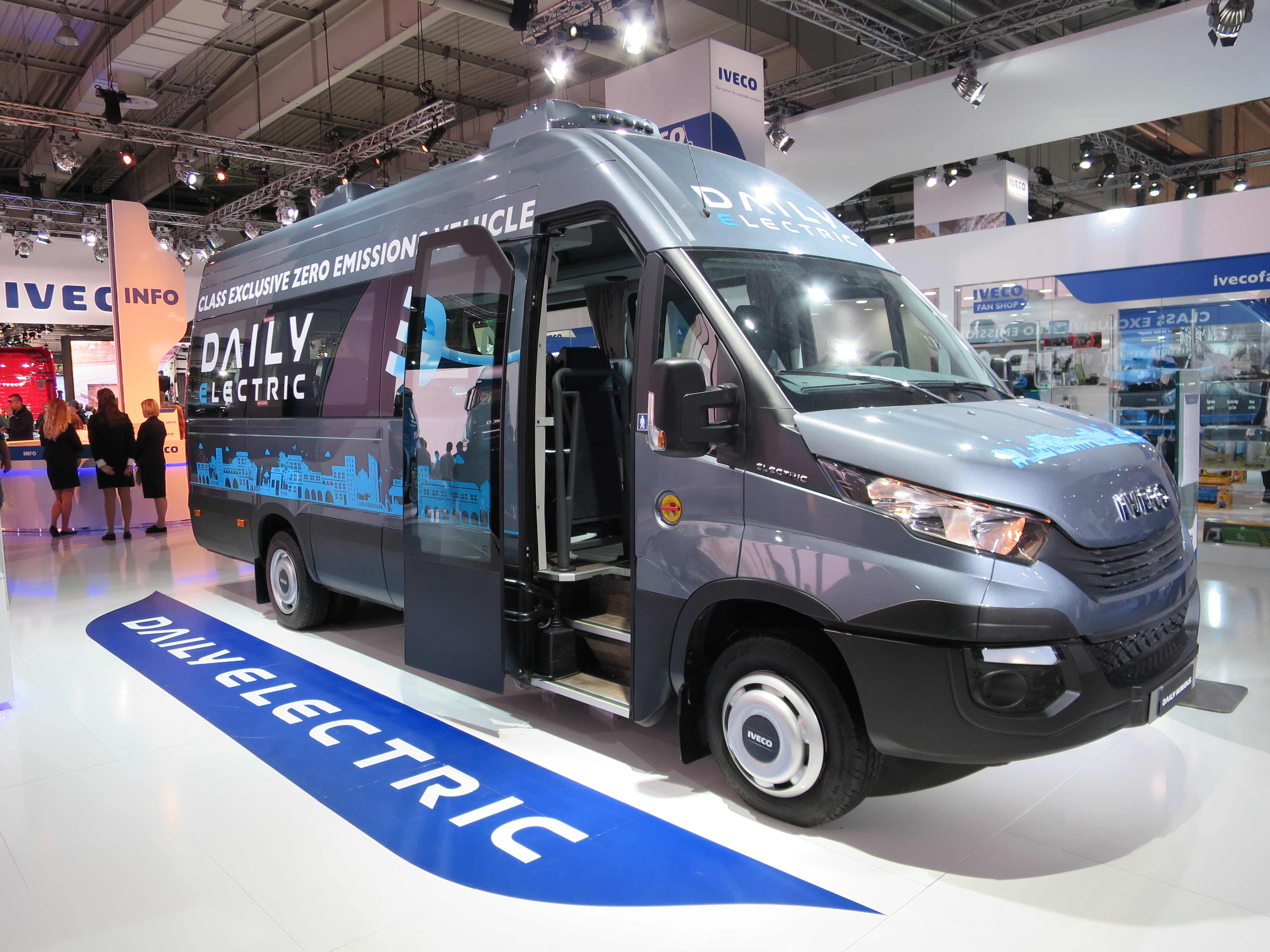 The making of this document was supported by Wikimedia Polska Association, within Wikigrant no. WG 2016-35. Iveco Daily Electric